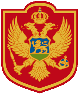 Military of Montenegro